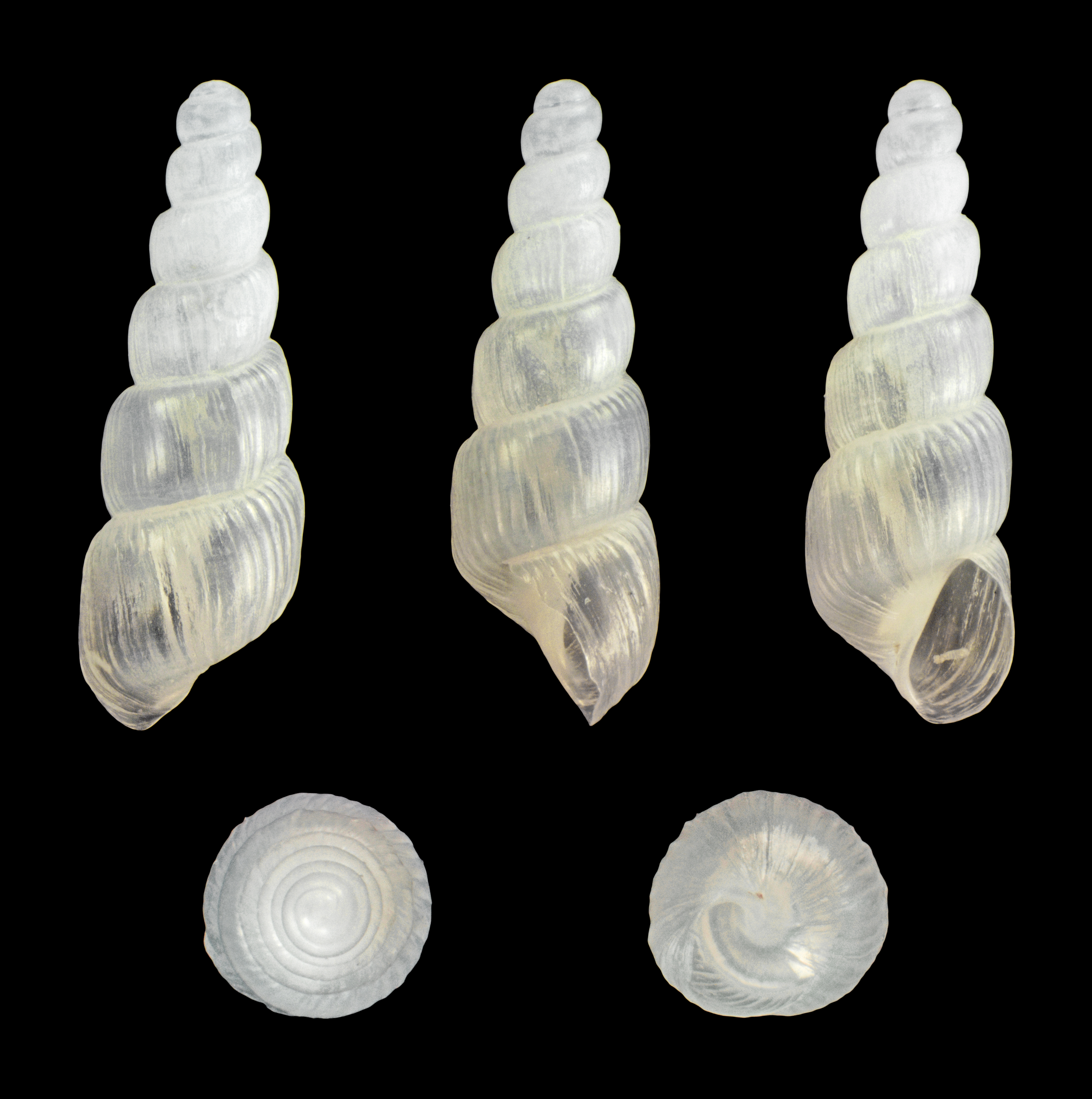 Looping Snail, juvenile shell; Length 0.40 cm; Originating from Majorca, Spain; Shell of own collection, therefore not geocoded.